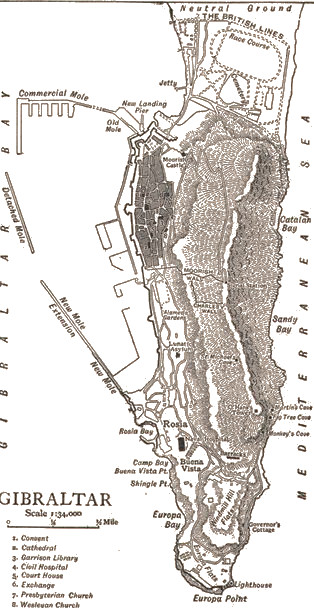 Gibraltar-1911 Encyclopedia black and white